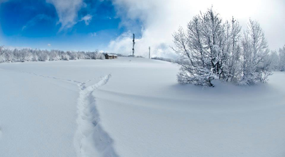 Landscape in the village of Bajgora near Mitrovica